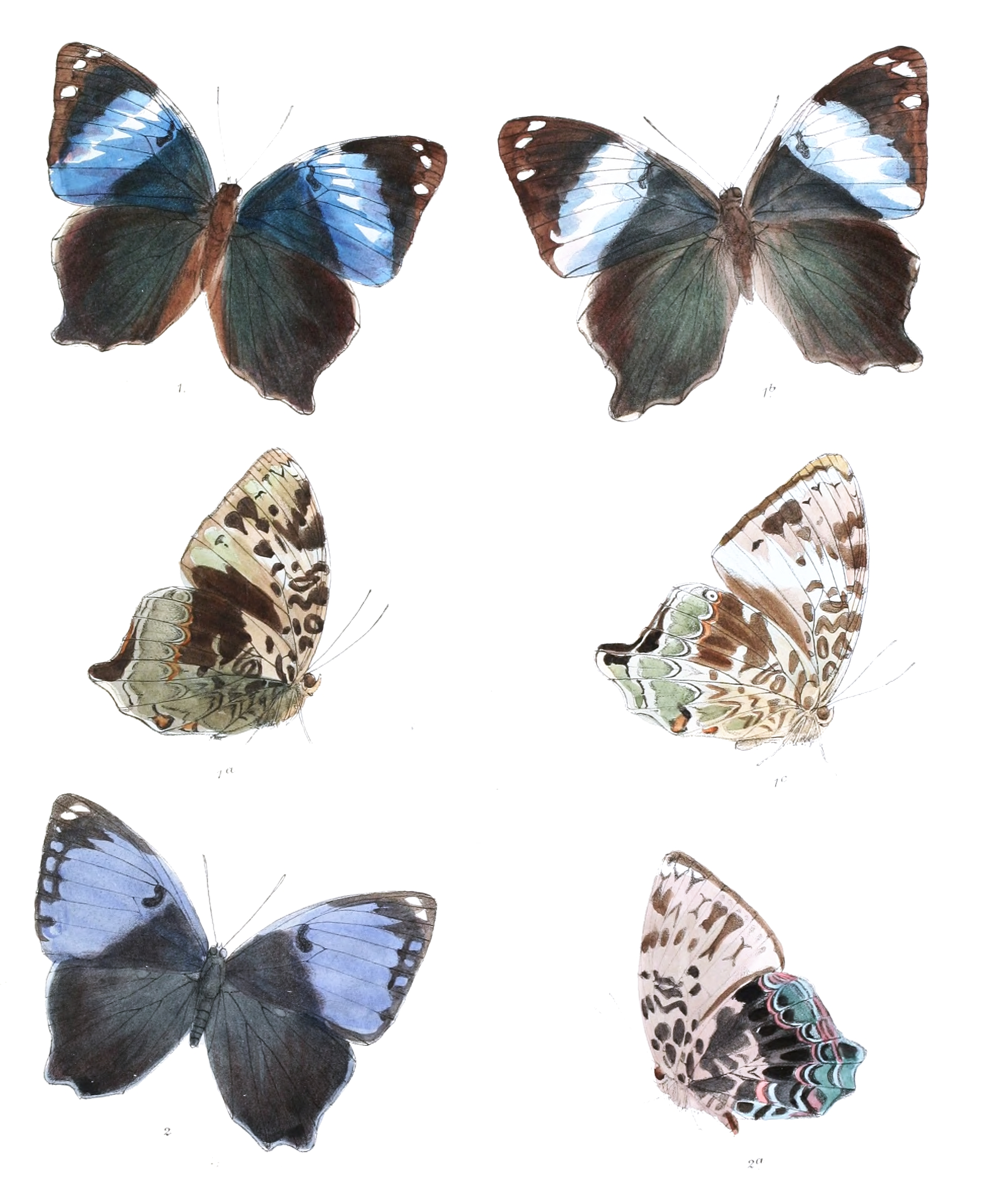 1 Prothoe angelica 2 Prothoe regalis (m) = Prothoe franck